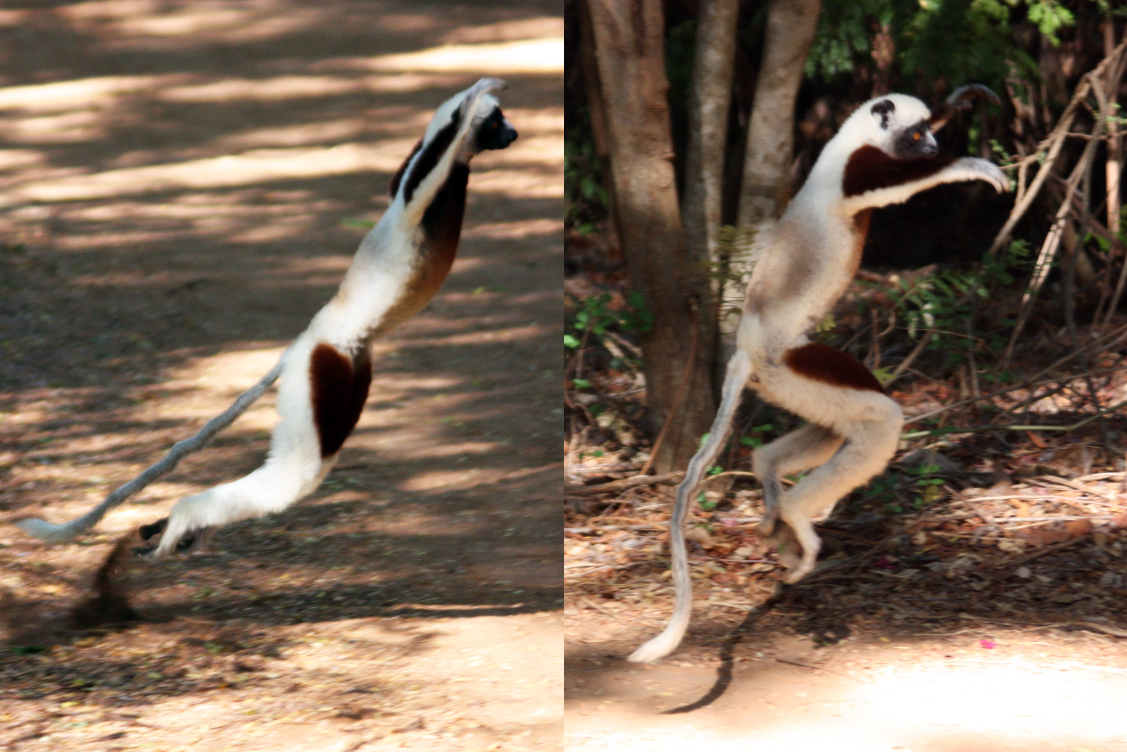 Coquerel's sifaka lemur (Propithecus coquereli) showing terrestrial locomotion (composite)